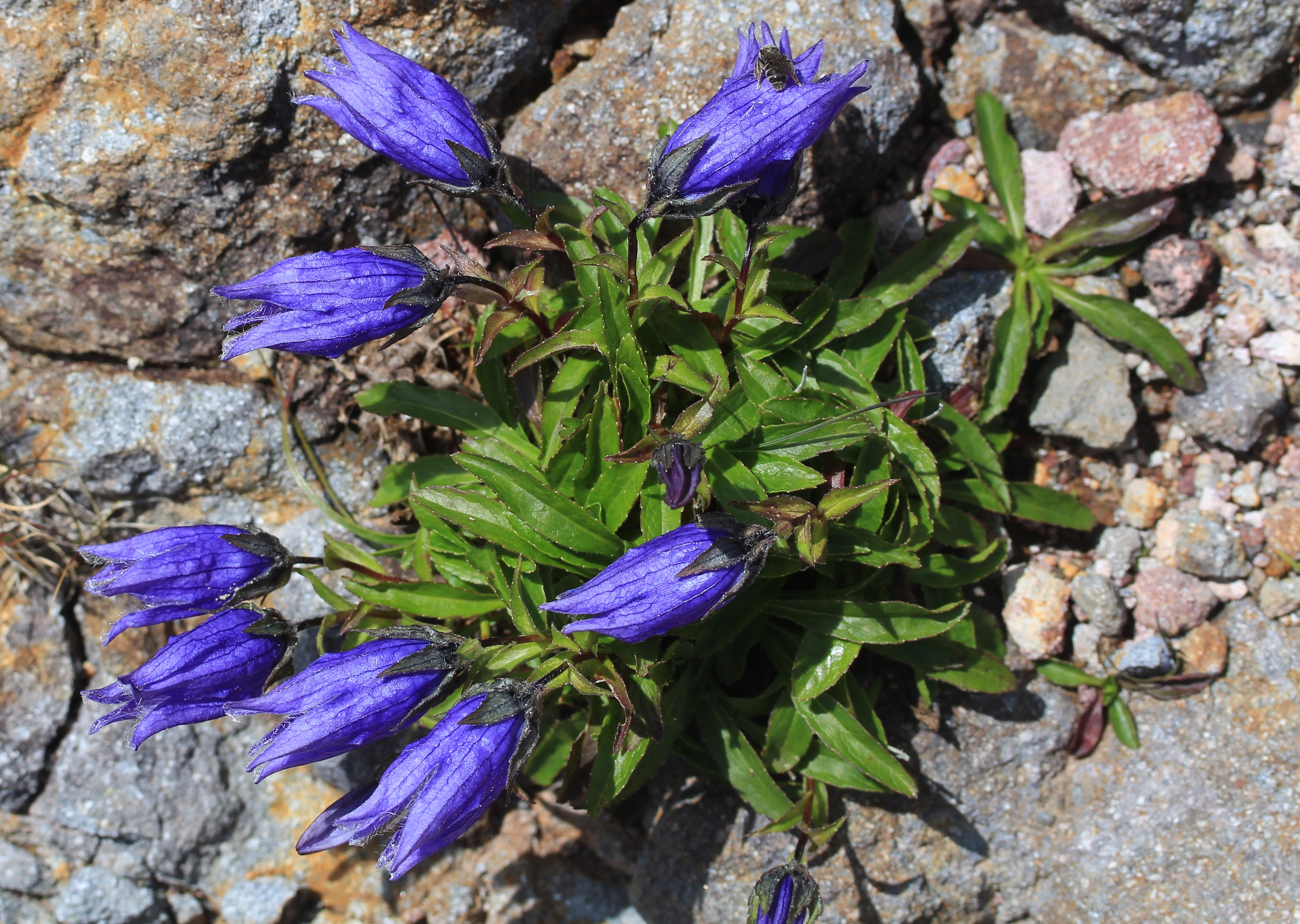 Campanula chamissonis in Mount Ontake, Japan.